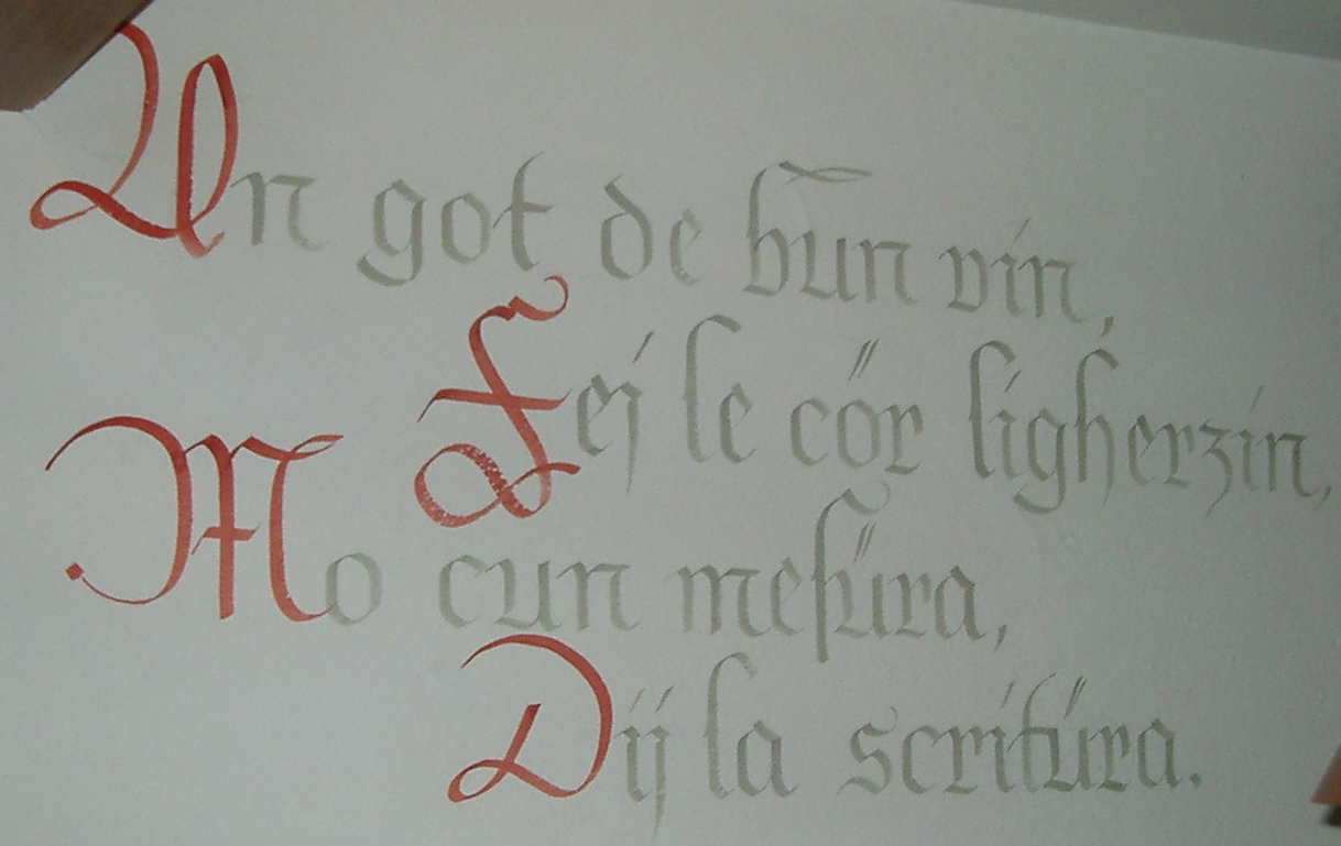 ladin inscription in Wengen La Val - La Valle - Wengen - Albergo/Gasthof Pider (village in Dolomites) - Un got de bun vin, fej la cor ligherzin, ma cun mesüra, dij la scritüra. - a good drop of vine, makes the heart to be lighter, but with measure, says the scripture.